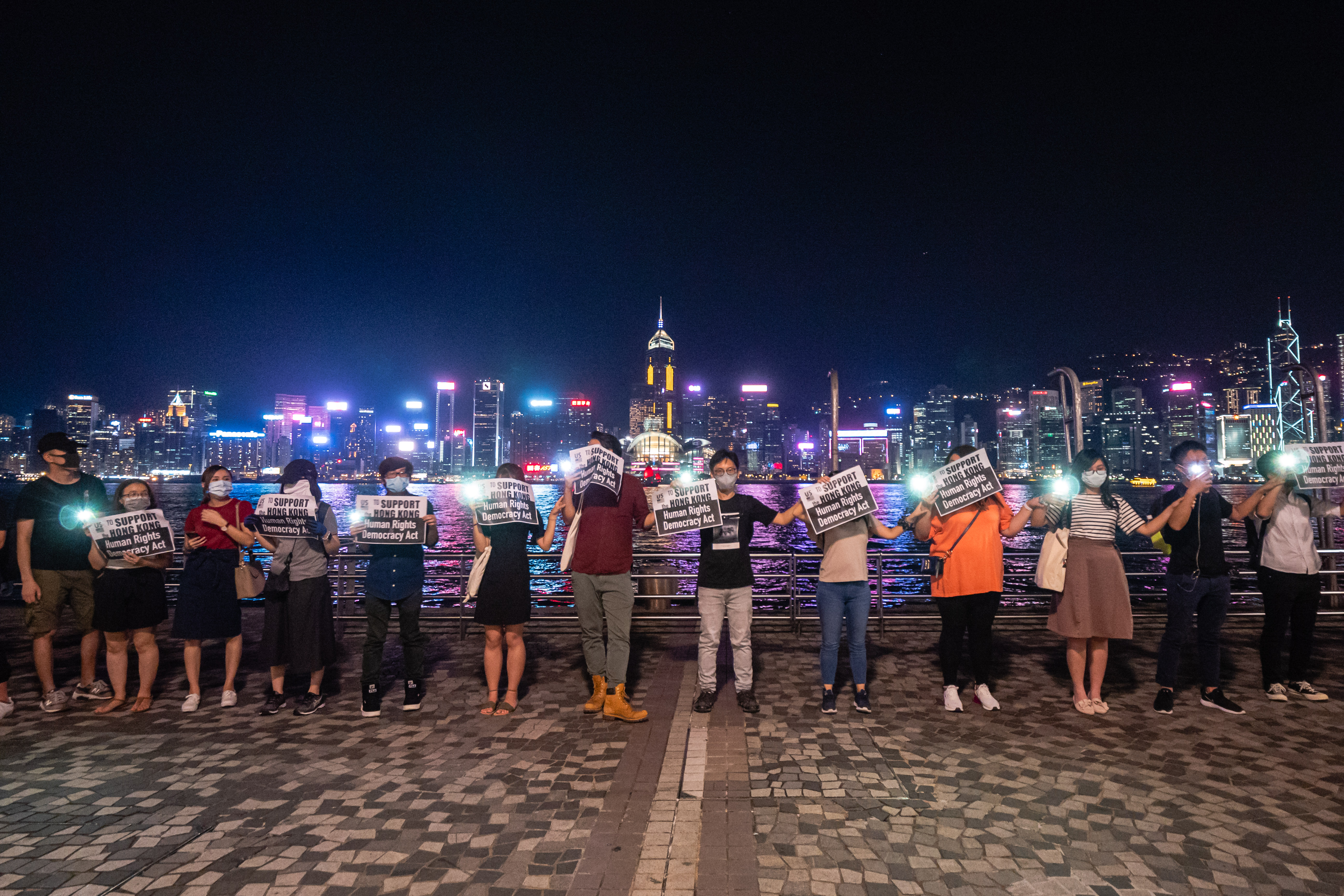 Human chains demonstration against extradition bill in Hong Kong on August 23rd, 2019.